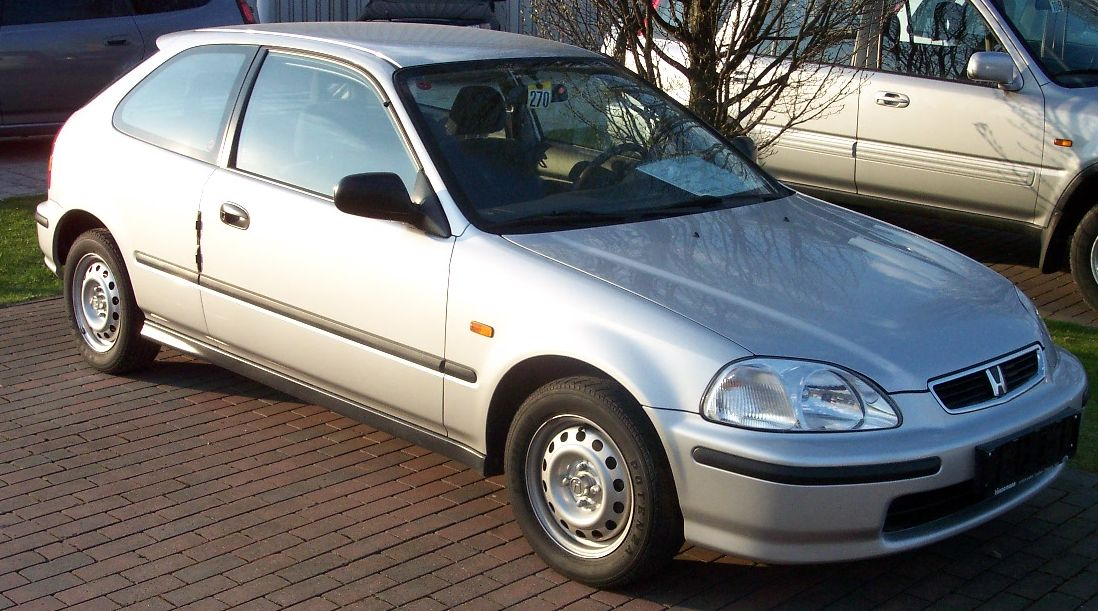 Honda Civic